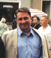 Kamil Durczok, a Polish TV presenter